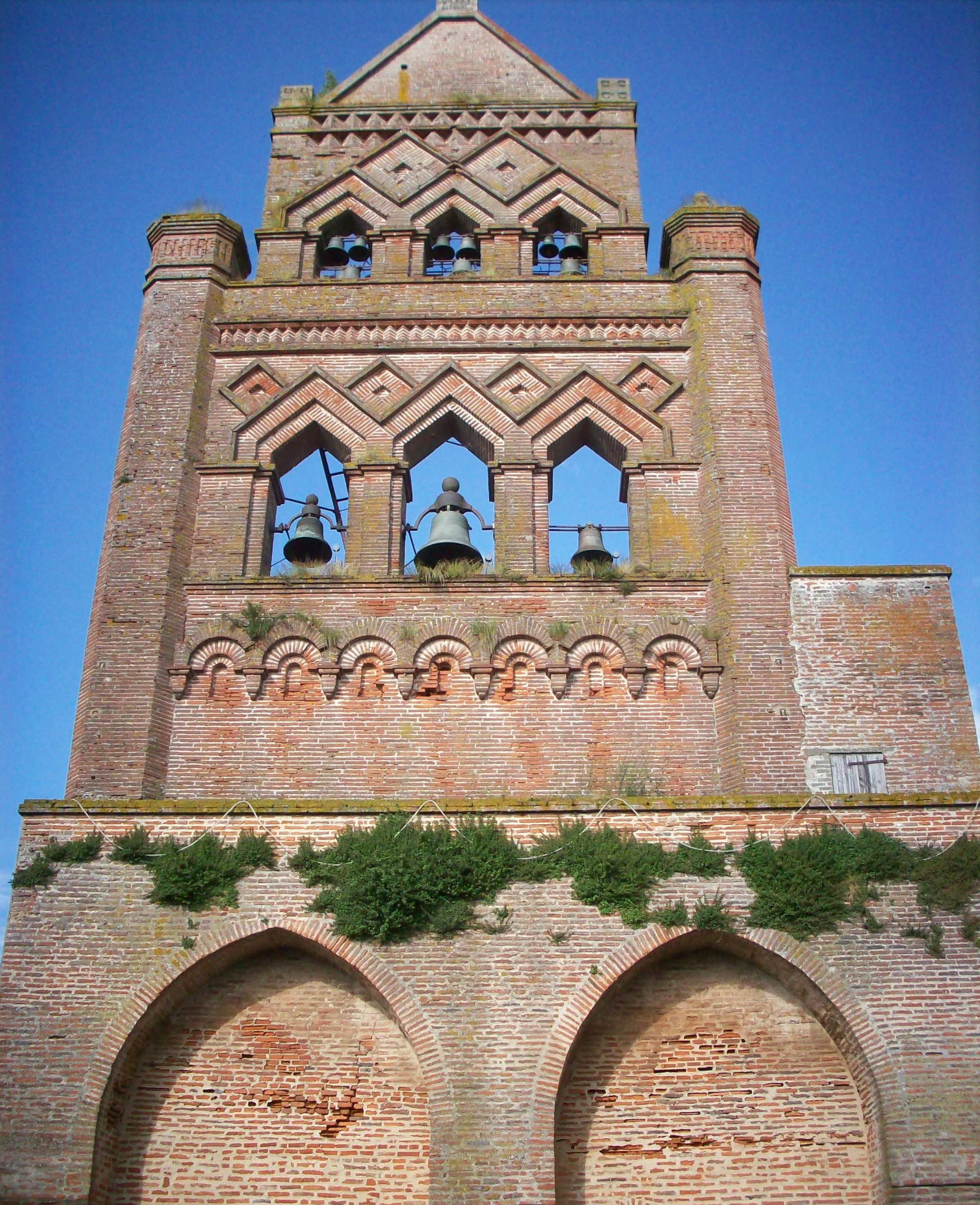 Miremont church (31)